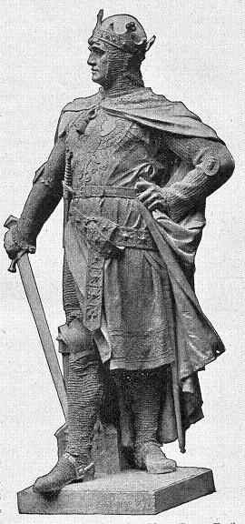 Memorial commemorating Albrecht II (c. 1150-1220), fourth Margrave of Brandenburg and grandson of Albert the Bear, younger brother of his precursor Otto II. Unveiled in 1898 in the former Siegesallee in Berlin, created by the sculptor Johannes Boese. At present stored in the Lapidarium in Berlin-Kreuzberg.